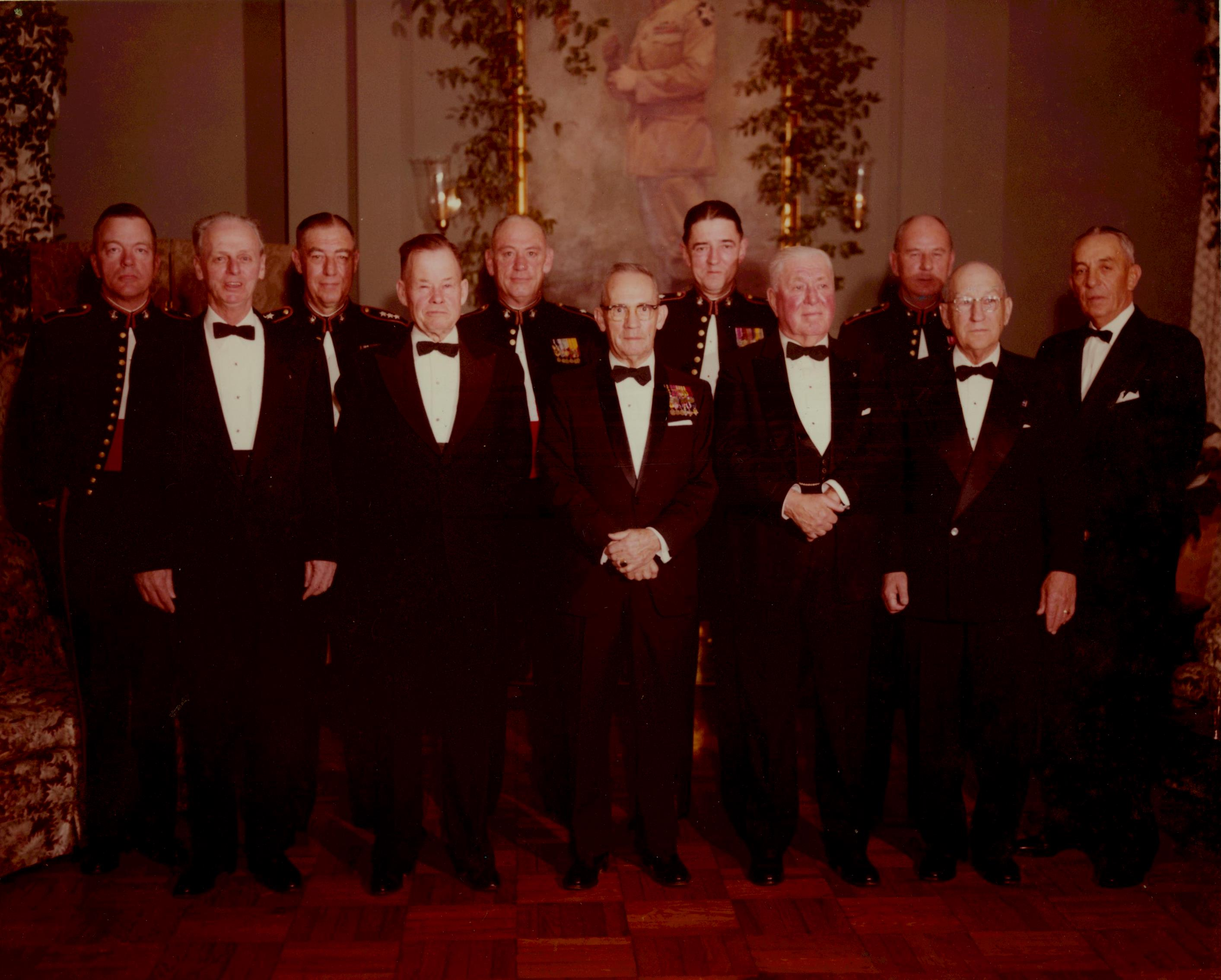 From the Lewis B. Puller Collection (COLL/794) at the Marine Corps Archives and Special Collections OFFICIAL USMC PHOTOGRAPH The 20th Anniversary of 2nd Marine Division, 1961; from left to right: BG Leonard F. Chapman Jr. (Commanding general Force Troops, Fleet Marine Force, Atlantic), GEN Franklin A. Hart ret. (commanded 2nd Marine Division 1948-1950), LTG Joseph C. Burger (Commanding general Fleet Marine Force, Atlantic; commanded 2nd Marine Division 1957-1959), LTG Lewis B. Puller ret. (commanded 2nd Marine Division 1954-1955), BG Odell M. Conoley (Assistant Division Commander), LTG Thomas E. Watson ret. (commanded 2nd Marine Division 1944-1945 and 1946-1948), MG James P. Berkeley (Commanding general 2nd Marine Division), MG Clayton B. Vogel ret. (First commanding general, commanded 2nd Marine Division 1941), MG Robert B. Luckey, LTG Julian C. Smith ret. (commanded 2nd Marine Division 1943-1944) and GEN Edwin A. Pollock ret. (commanded 2nd Marine Division 1951-1952).